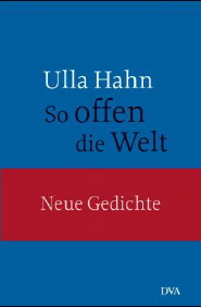 Book cover of Ulla Hahn, "So offen die Welt" 2004